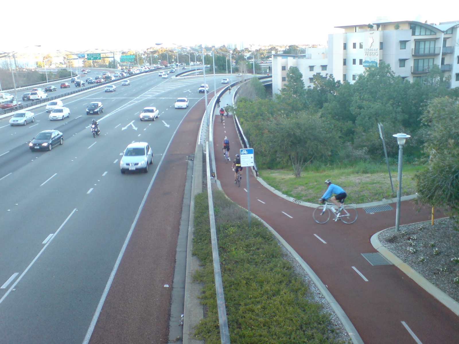 One of the Principal Shared Paths (PSPs) in Perth, Australia. Looking south near the CBD.